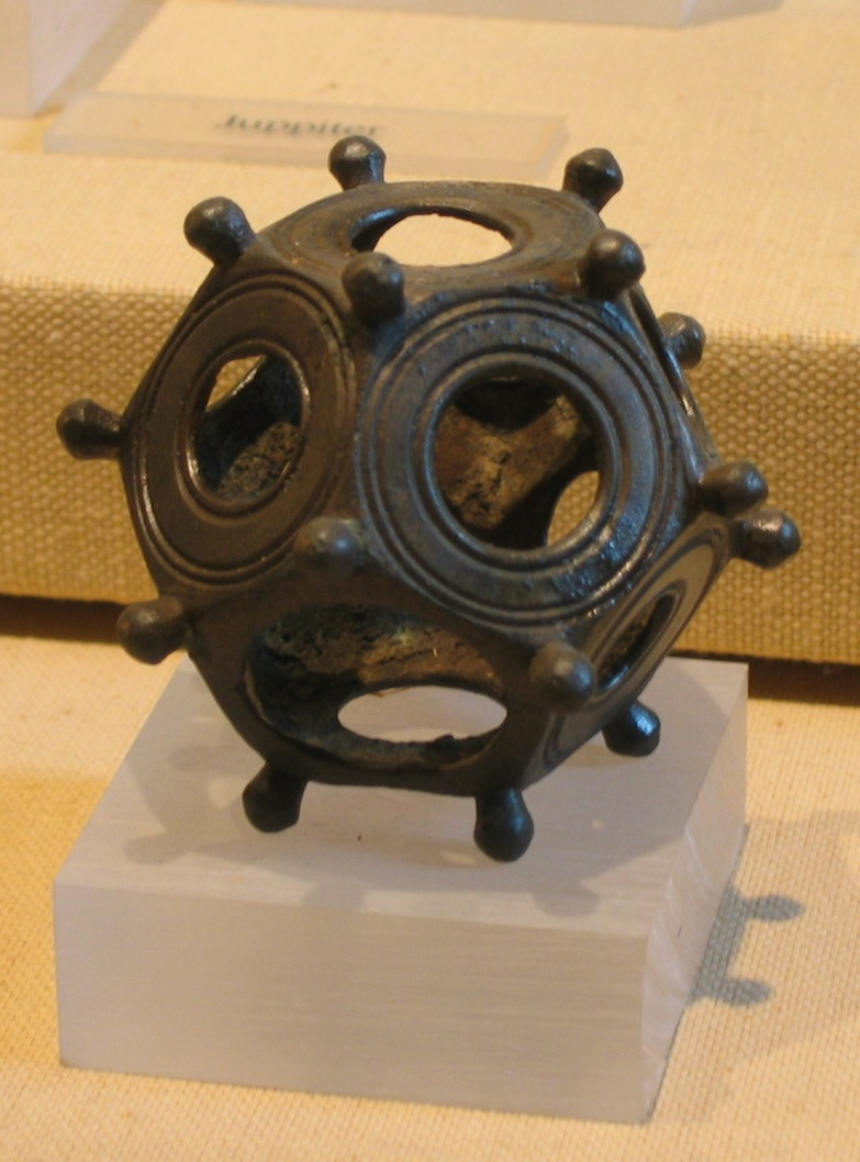 Small metal dodecahedron found in Roman ruins somewhere near Frankfurt.